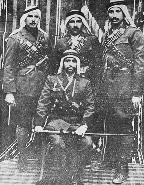 Palestinian rebel leader Yusuf Abu Durra and some of his men